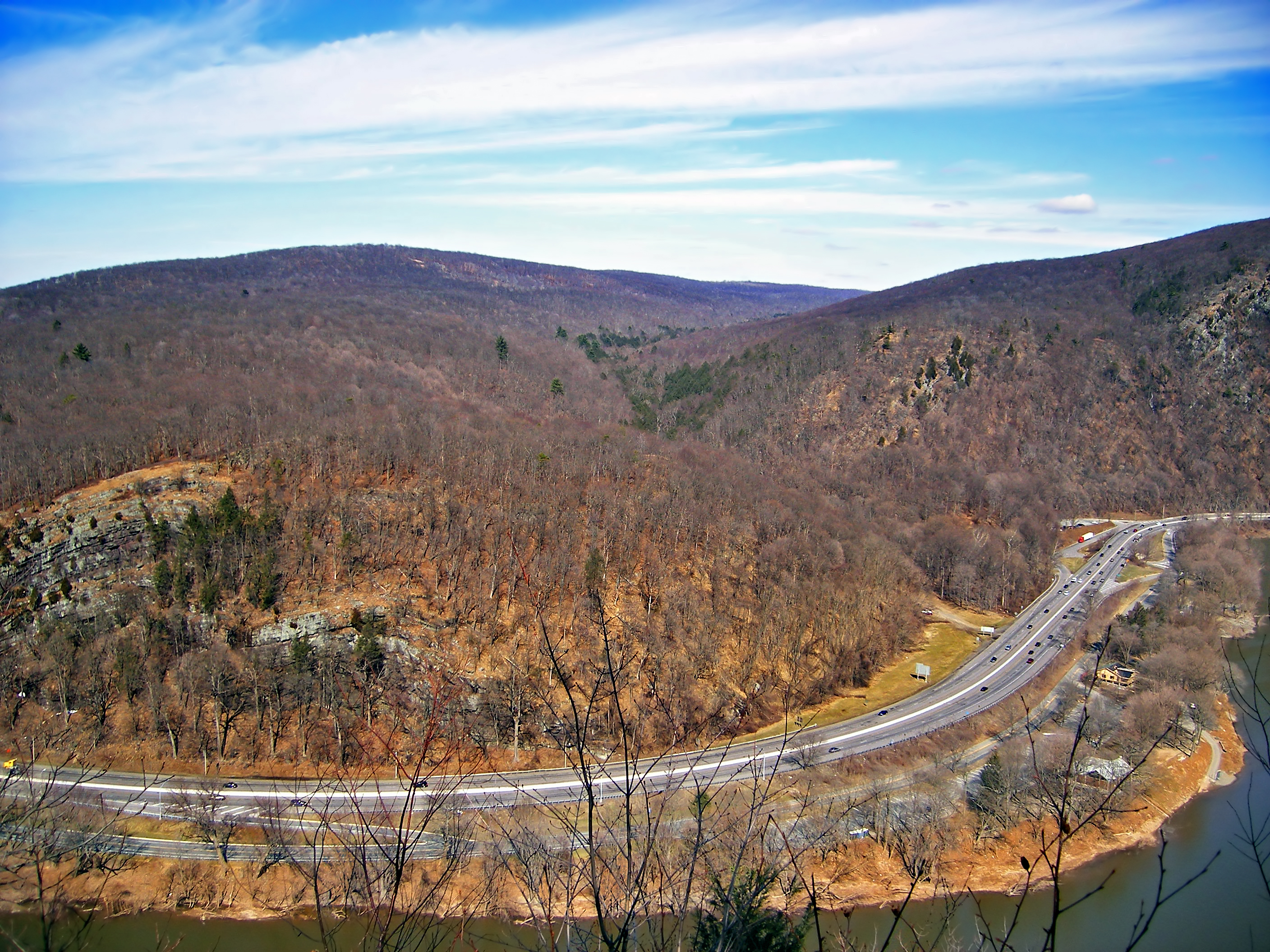 Interstate 80, Delaware Water Gap, as seen from a lookout on Mount Minsi, Pennsylvania. The highway straddles the New Jersey side of the Gap.